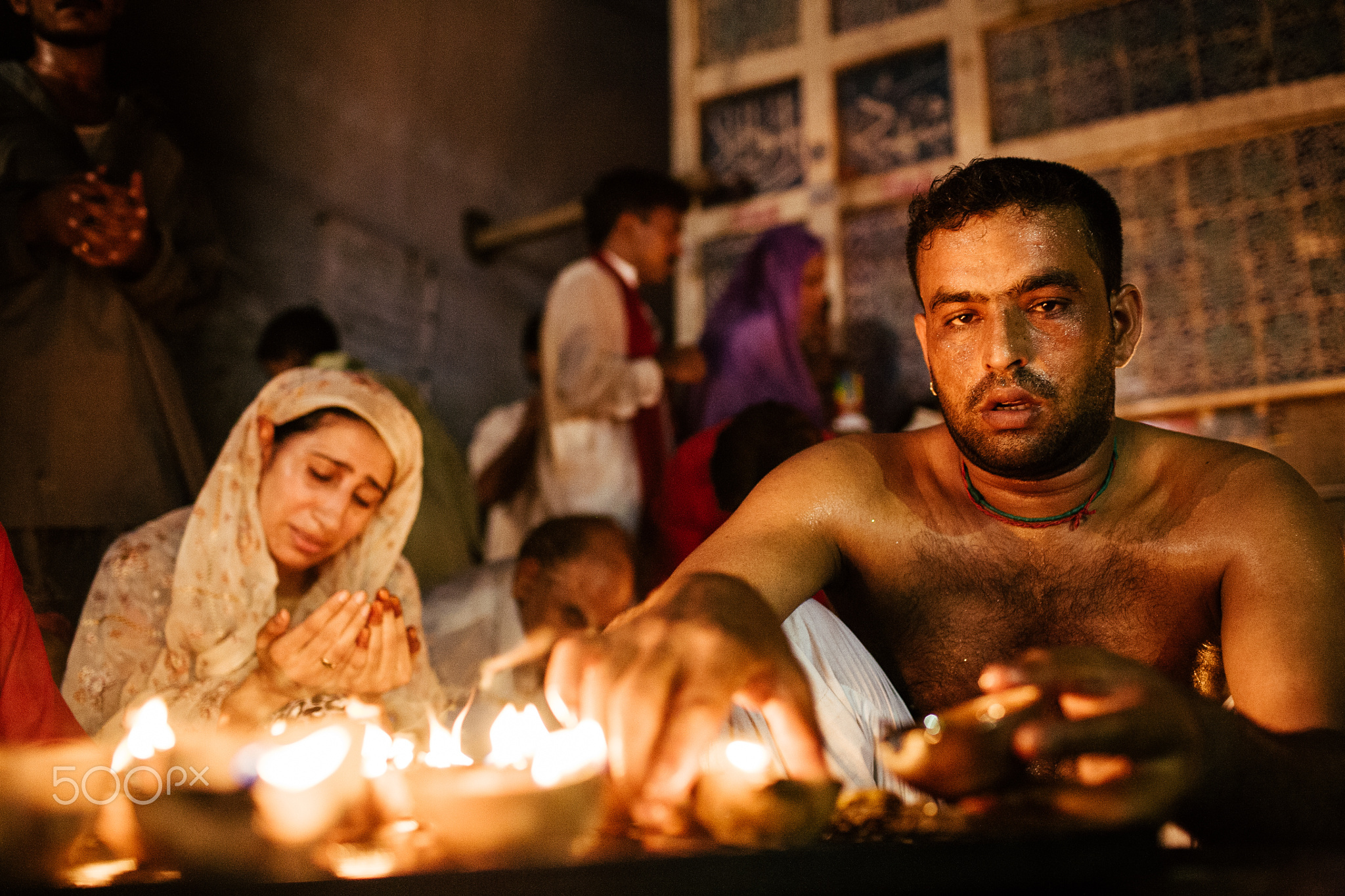 Tomb of Lal Shahbaz Qalandar This is a photo of a monument in Pakistan identified as the SD-U-6